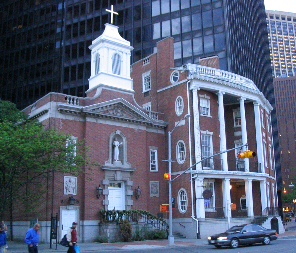 Looking north at Lower Manhattan home of Elizabeth Ann Seton